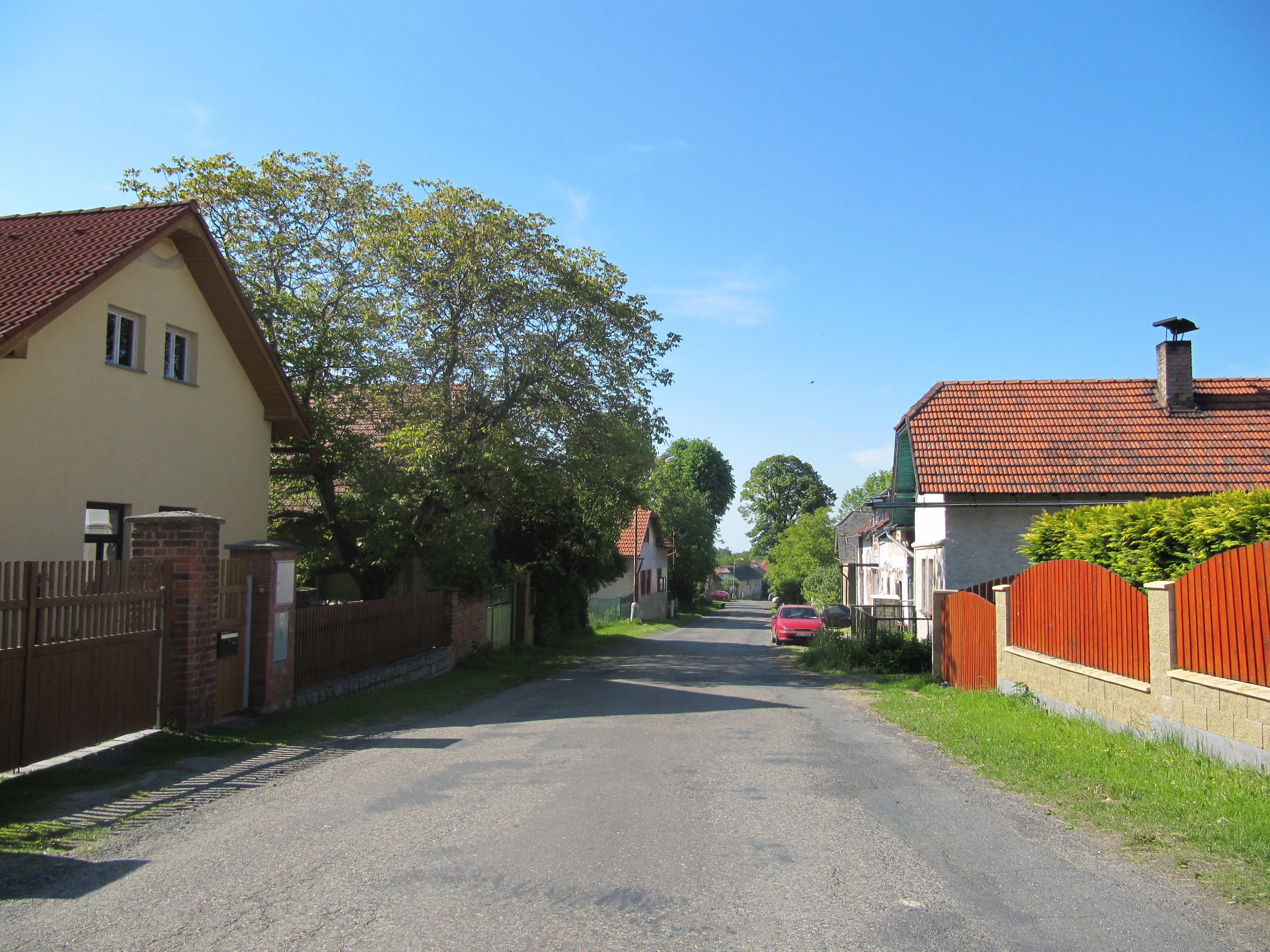 Rašovice in Kutná Hora District, Czech Republic. Main street.